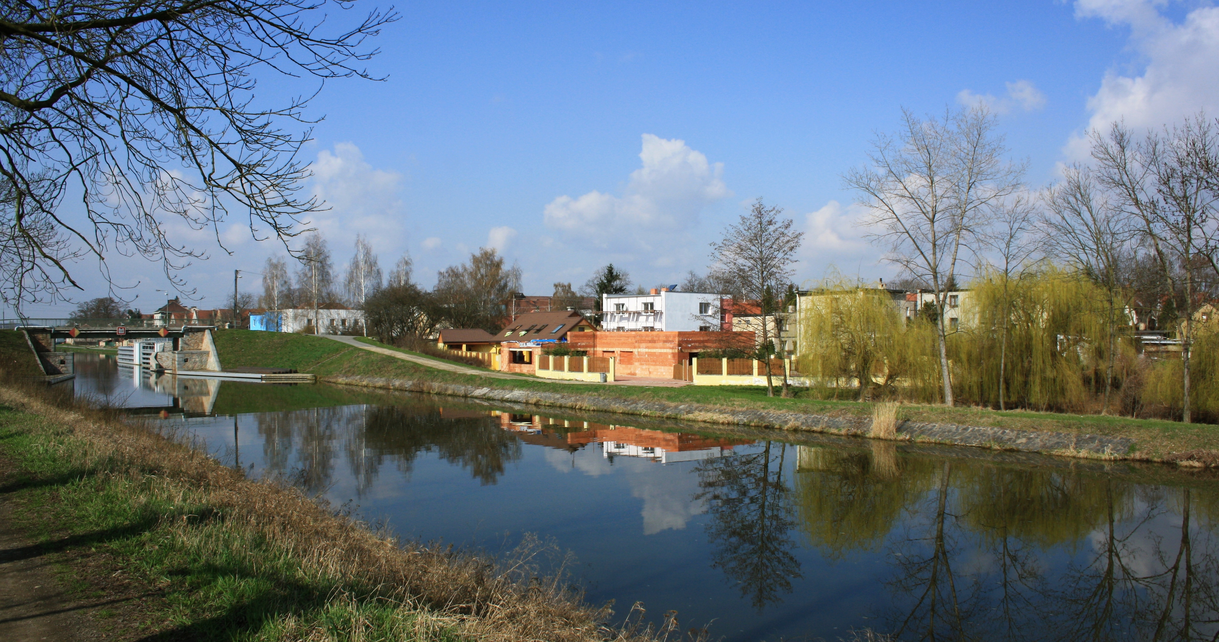 Vraňany (right) and Vltava-lateral channel (left), Mělník District. Central Bohemian Region, CZ